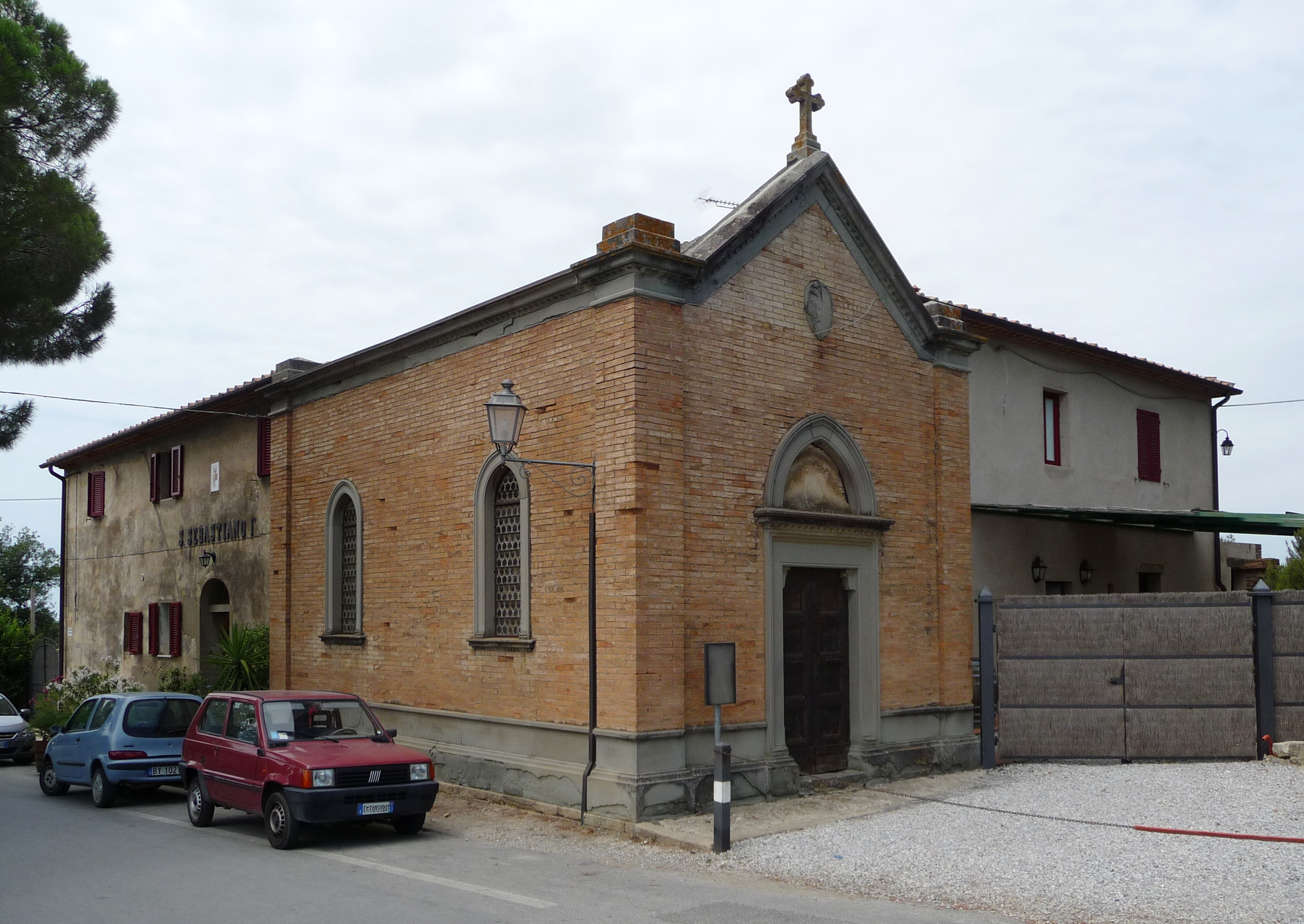 Church Chiesa di San Sebastiano, Bolgheri, Castagneto Carducci, Tuscany, Italy